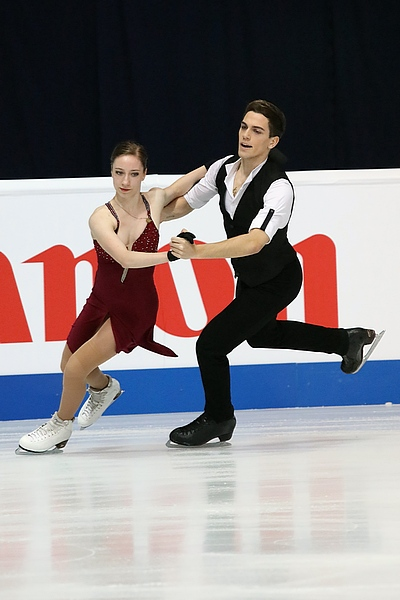 Evgeniia Lopareva and Geoffrey Brissaud at the 2019 Junior World Championships - RD